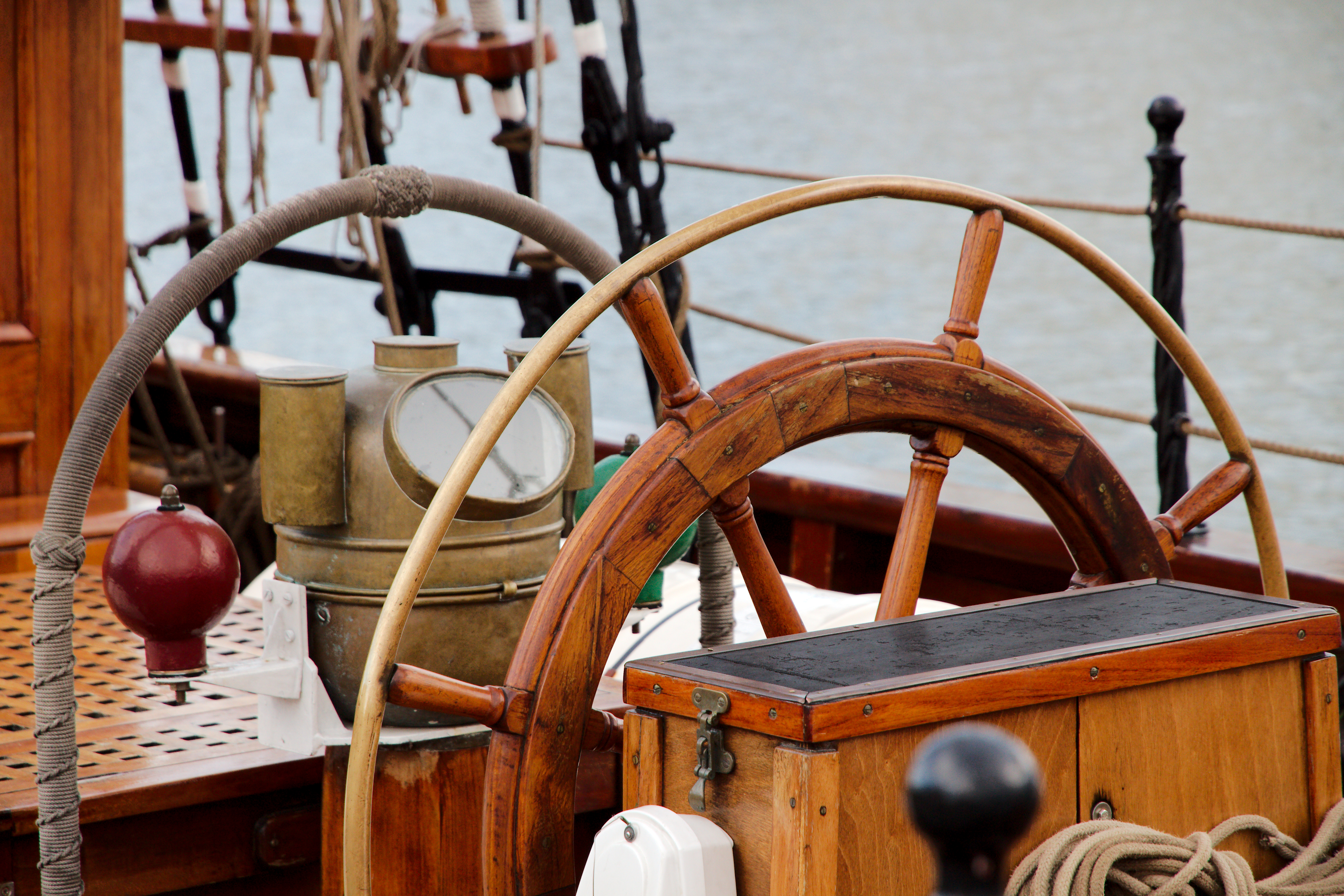 of Bremen